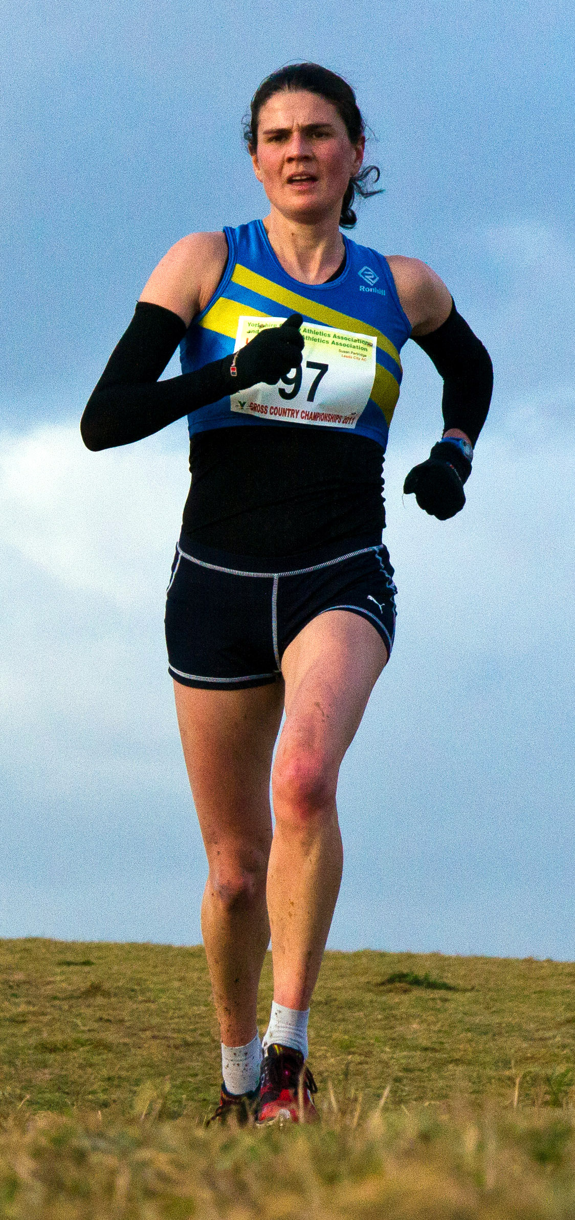 crop of photo of Susan Partridge of Leeds City at the Yorkshire Cross Country Championships 2011, colour levels adjusted